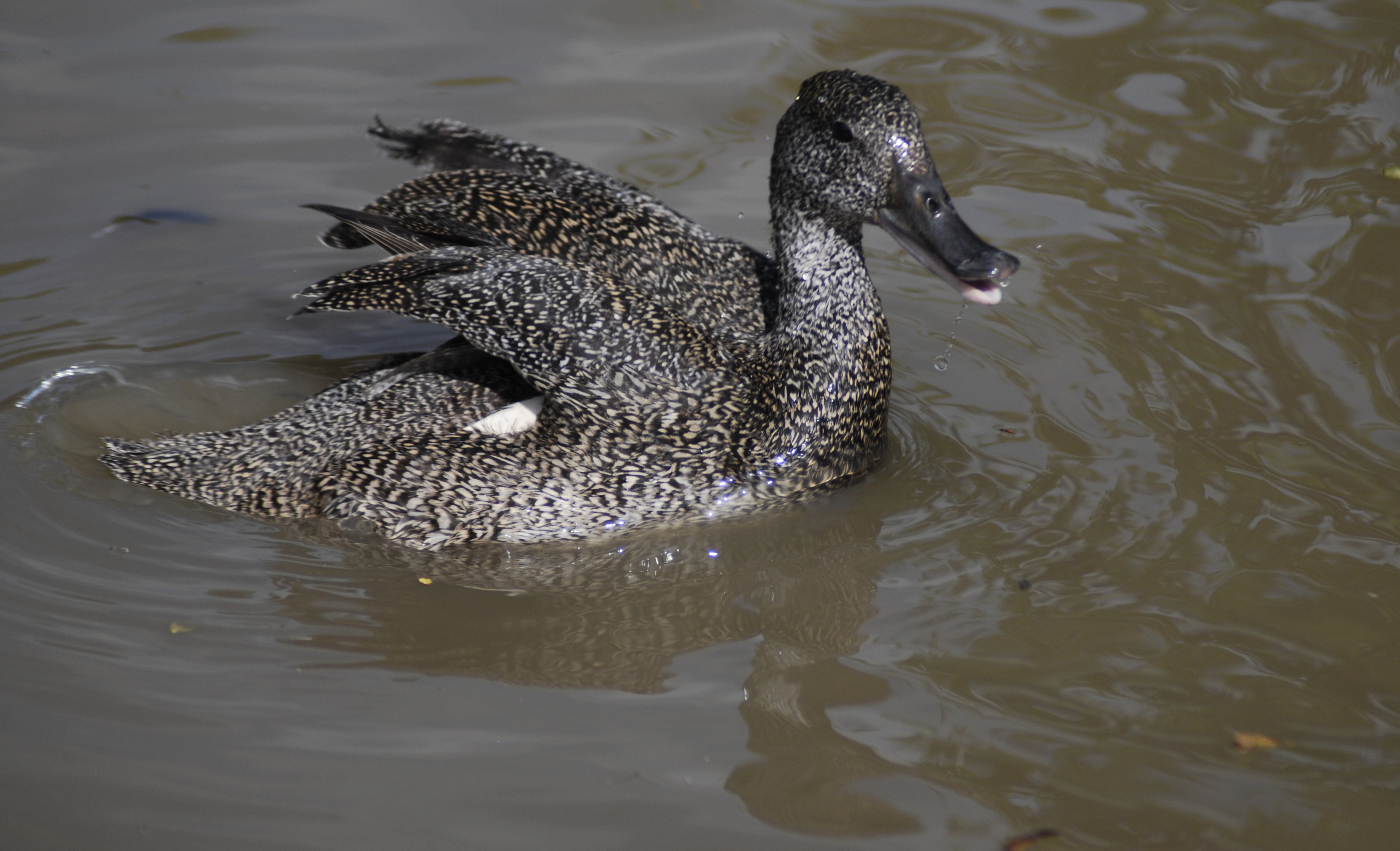 Freckled duck (Stictonetta naevosa) Location:Slimbridge Wildfowl and Wetlands Centre, Gloucestershire, UK